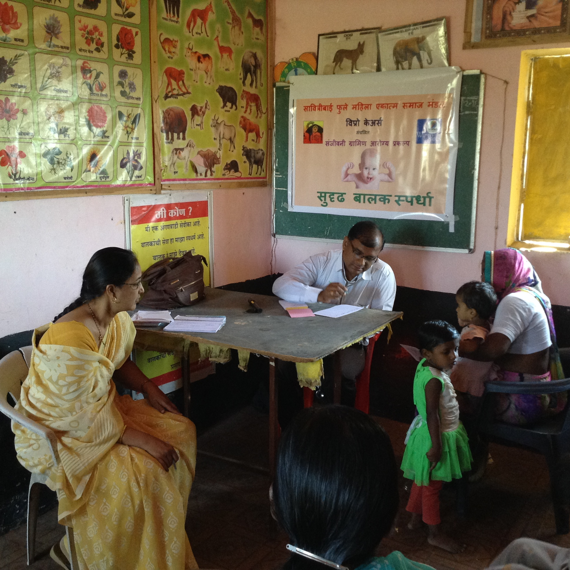 healthy baby contest